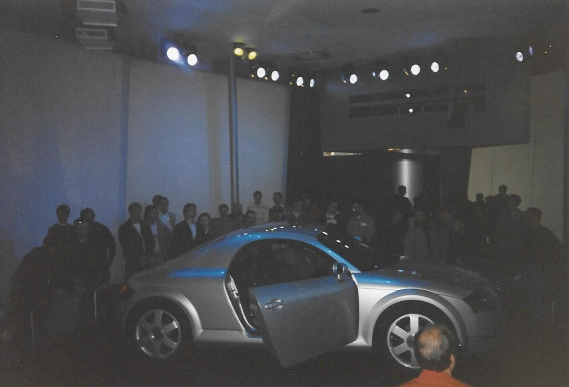 1995 International Motor Show Germany (IAA) - Audi TT